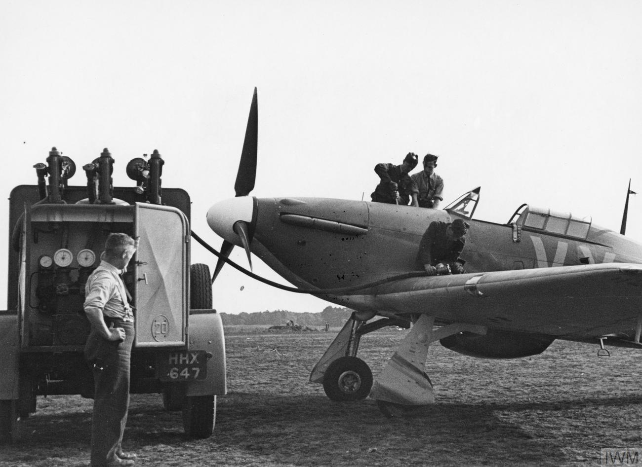 RAF Fighter Command 1940 Hawker Hurricane Mk I P3166 VY-Q, flown by the CO of No. 85 Squadron, Sqn Ldr Peter Townsend, being refuelled at Castle Camps, July 1940.